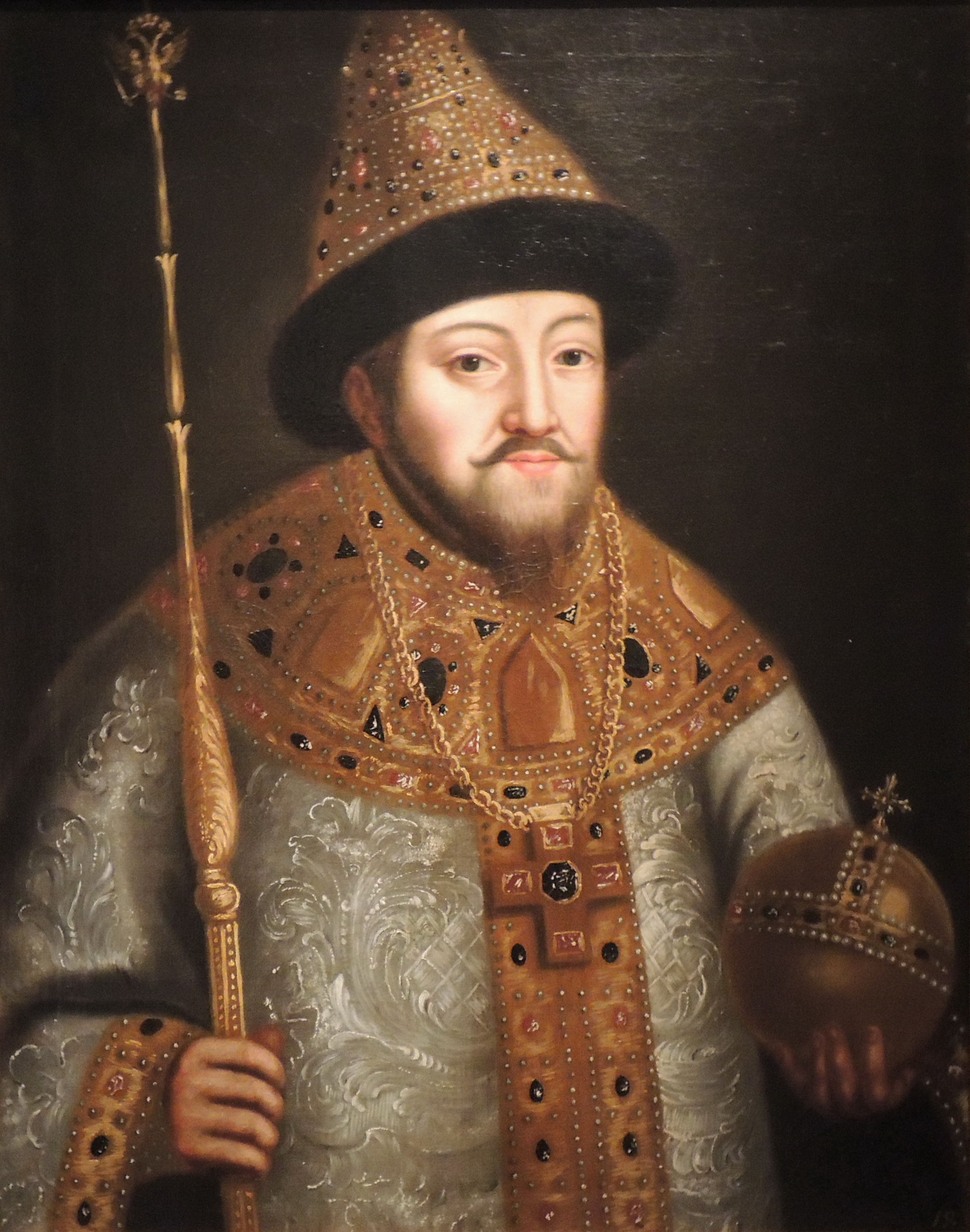 Michael of Russia by anonymous (1772, Kremlin)